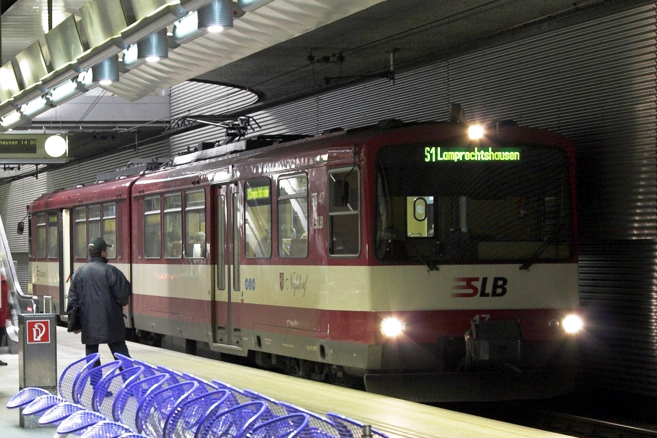 Underground station Salzburg Lokalbahnhof of the Salzburger Lokalbahn.